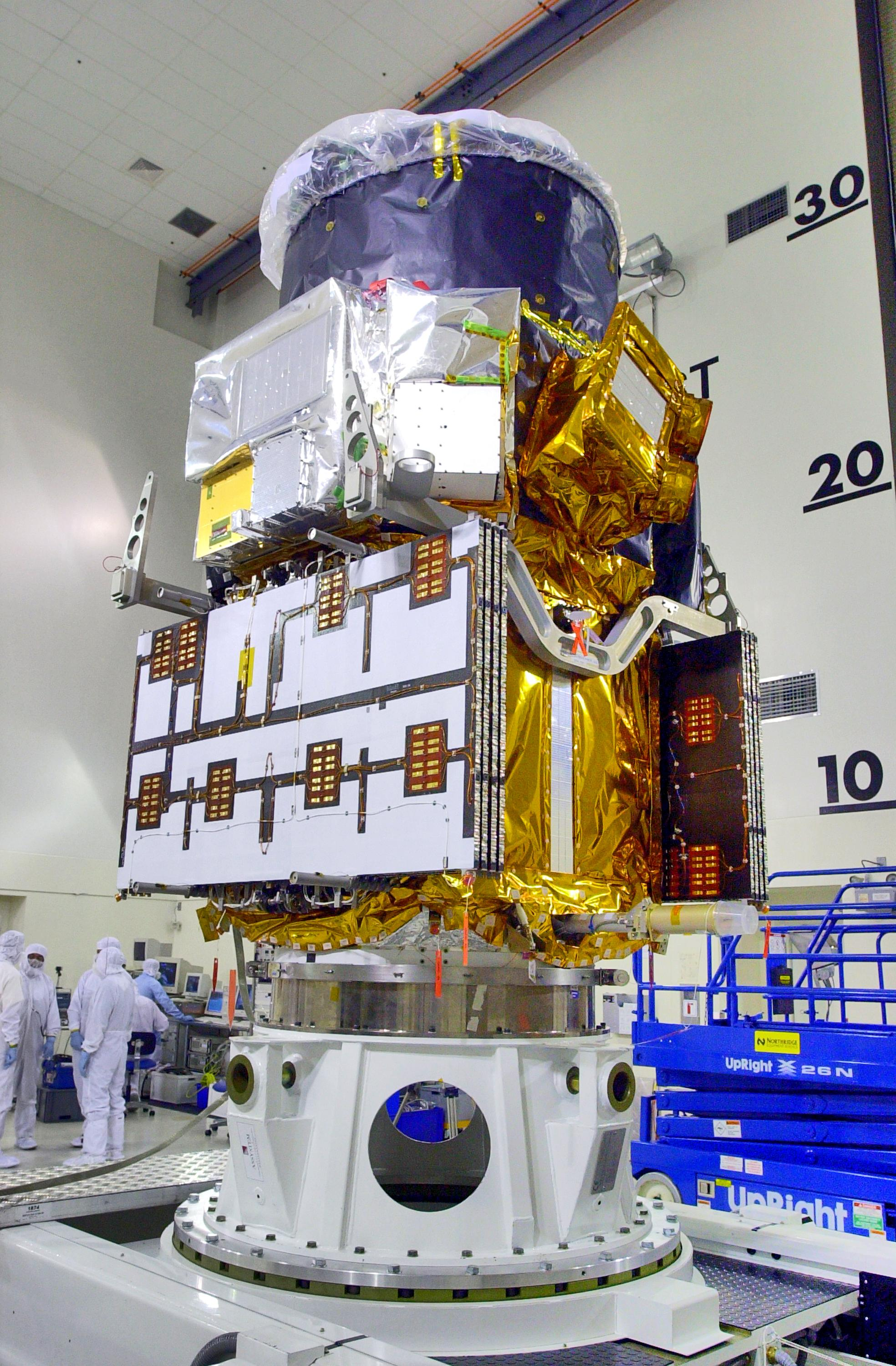 Inside the Astrotech Payload Processing Facility on Vandenberg Air Force Base in California, the Cloud-Aerosol Lidar and Infrared Pathfinder Satellite Observation (CALIPSO) spacecraft has been raised to vertical. It will be lifted and transferred to a workstand. CALIPSO will undergo state-of-health checks, and electrical ground-support equipment testing. CALIPSO will fly in combination with the CloudSat satellite to provide never-before-seen 3-D perspectives of how clouds and aerosols form, evolve, and affect weather and climate. CALIPSO and CloudSat will join three other satellites in orbit to enhance understanding of climate systems. The launch date for CALIPSO/CloudSat is no earlier than Aug. 22.